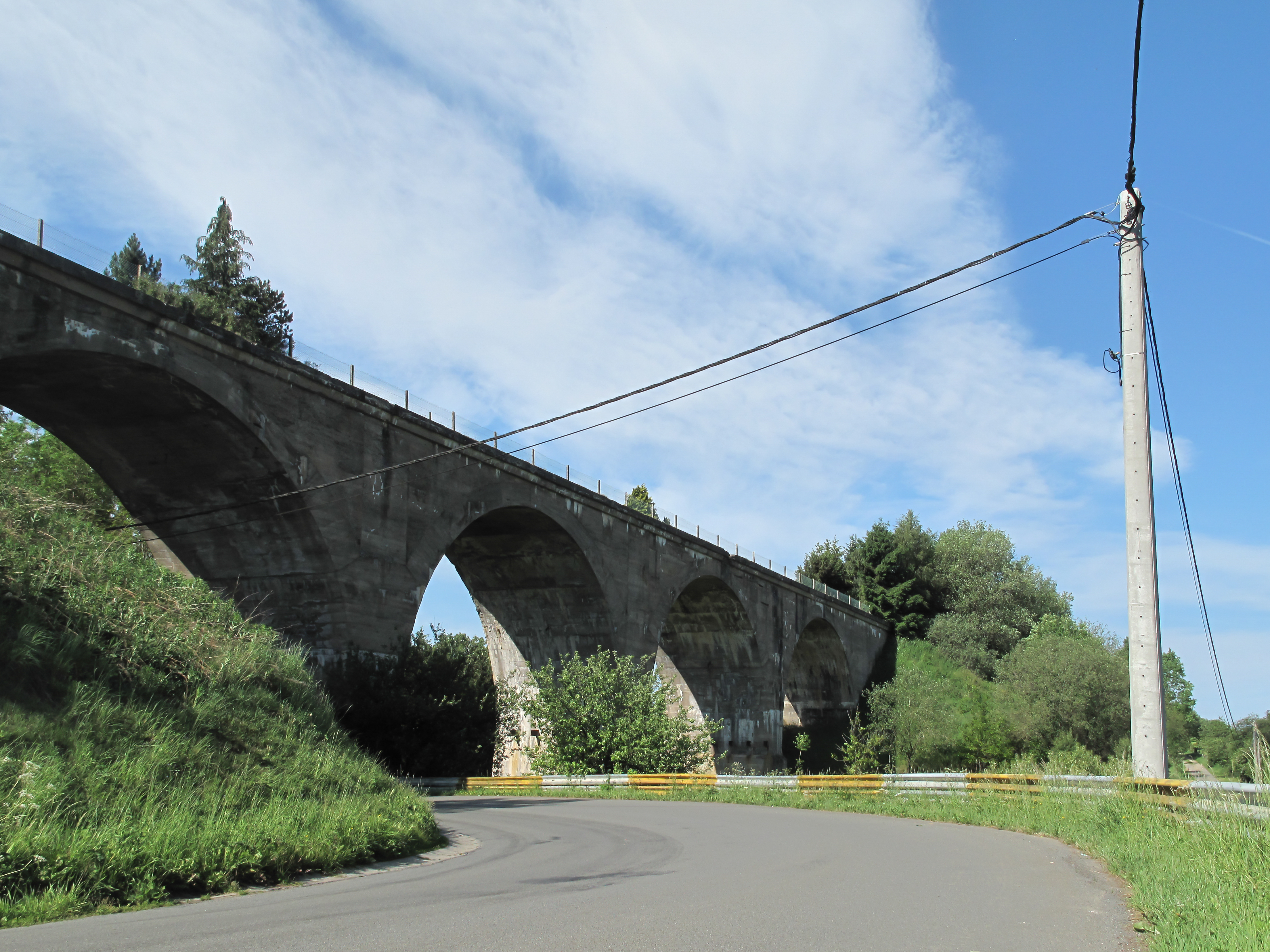 between Neundorf and Sankt Vith, fly over and electricity